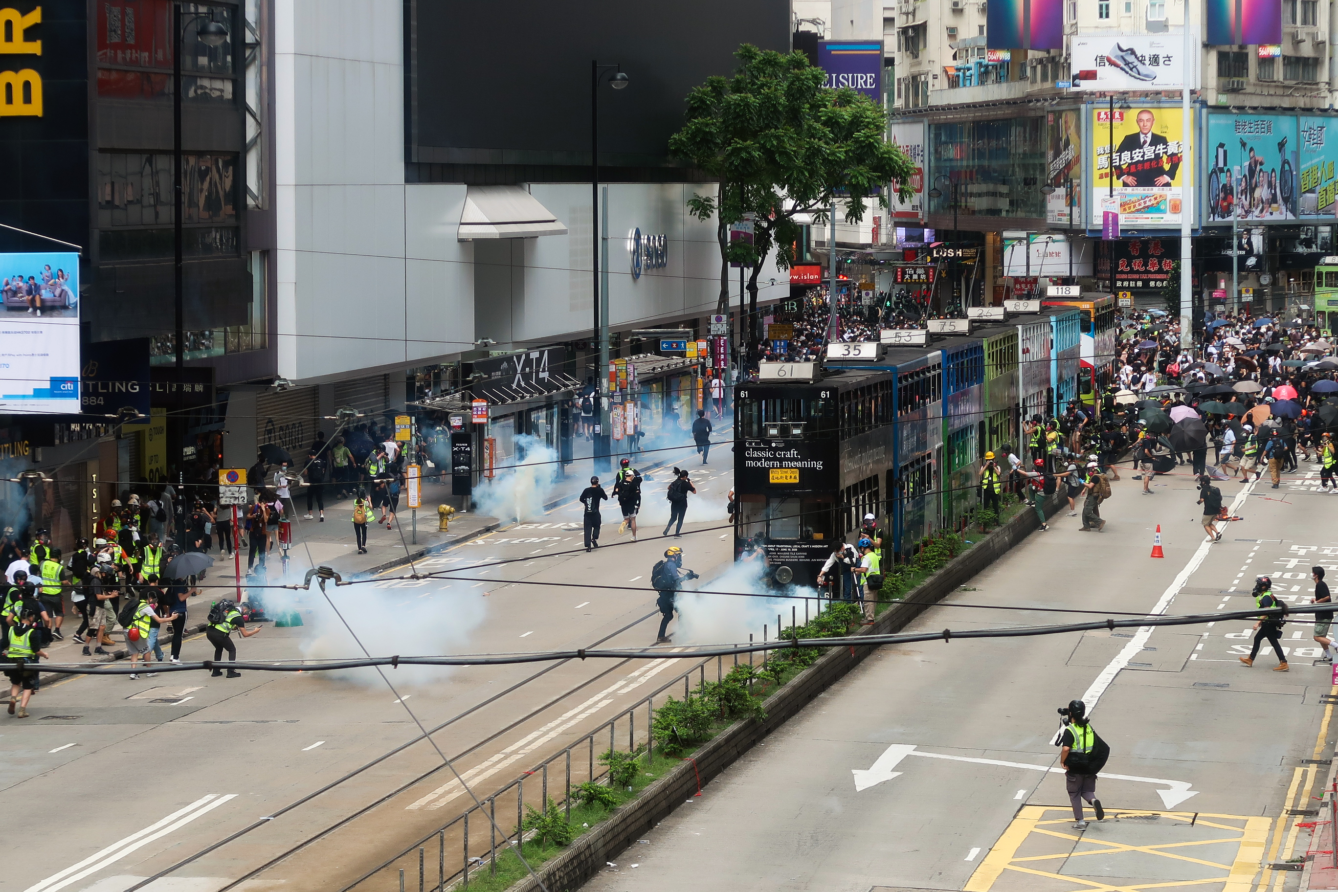 Tear Gas in CWB Hennessy Road